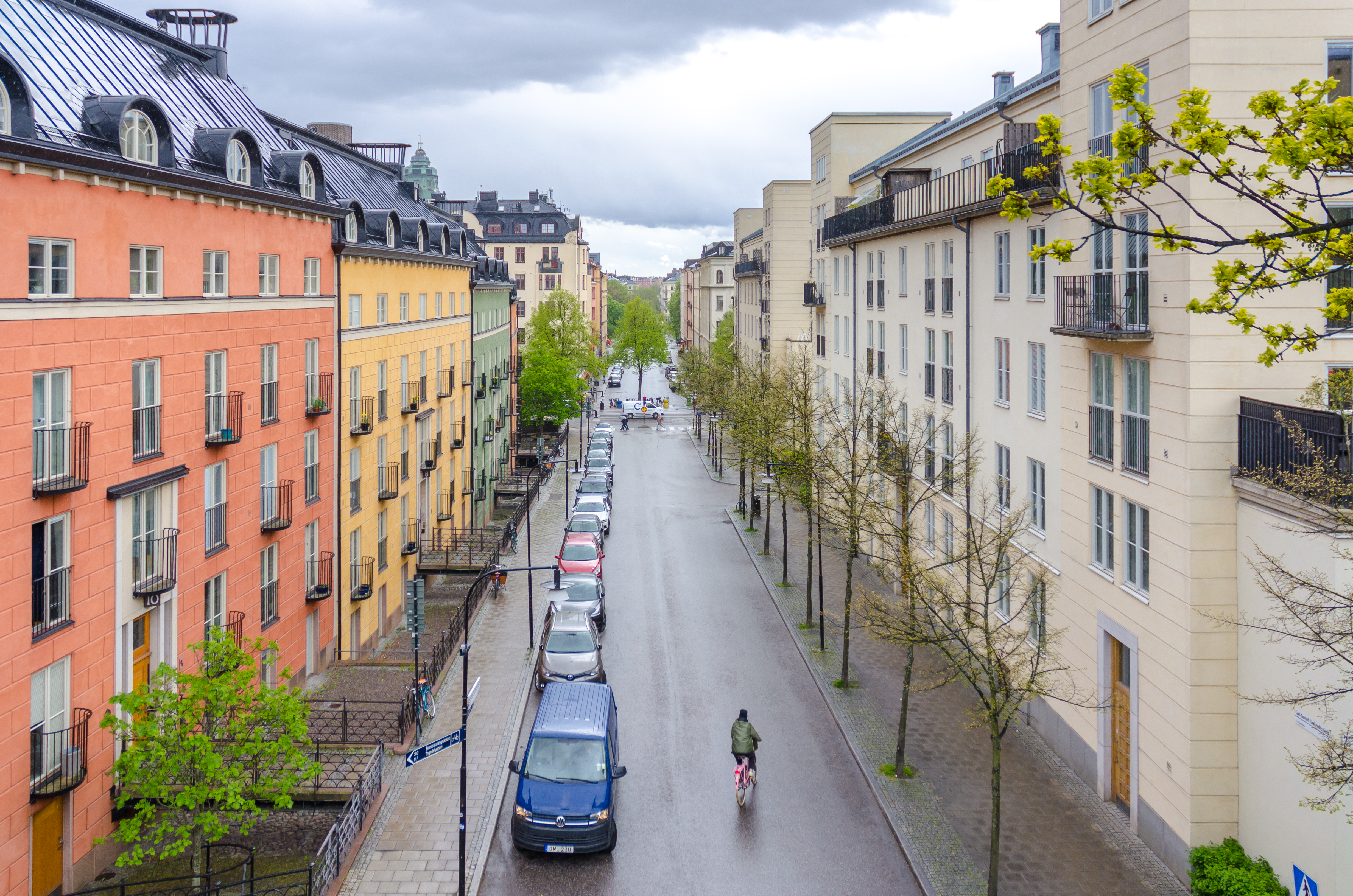 Carl-Gustaf Lindstedts Gata on Kungsholmen in Stockholm in May 2020.